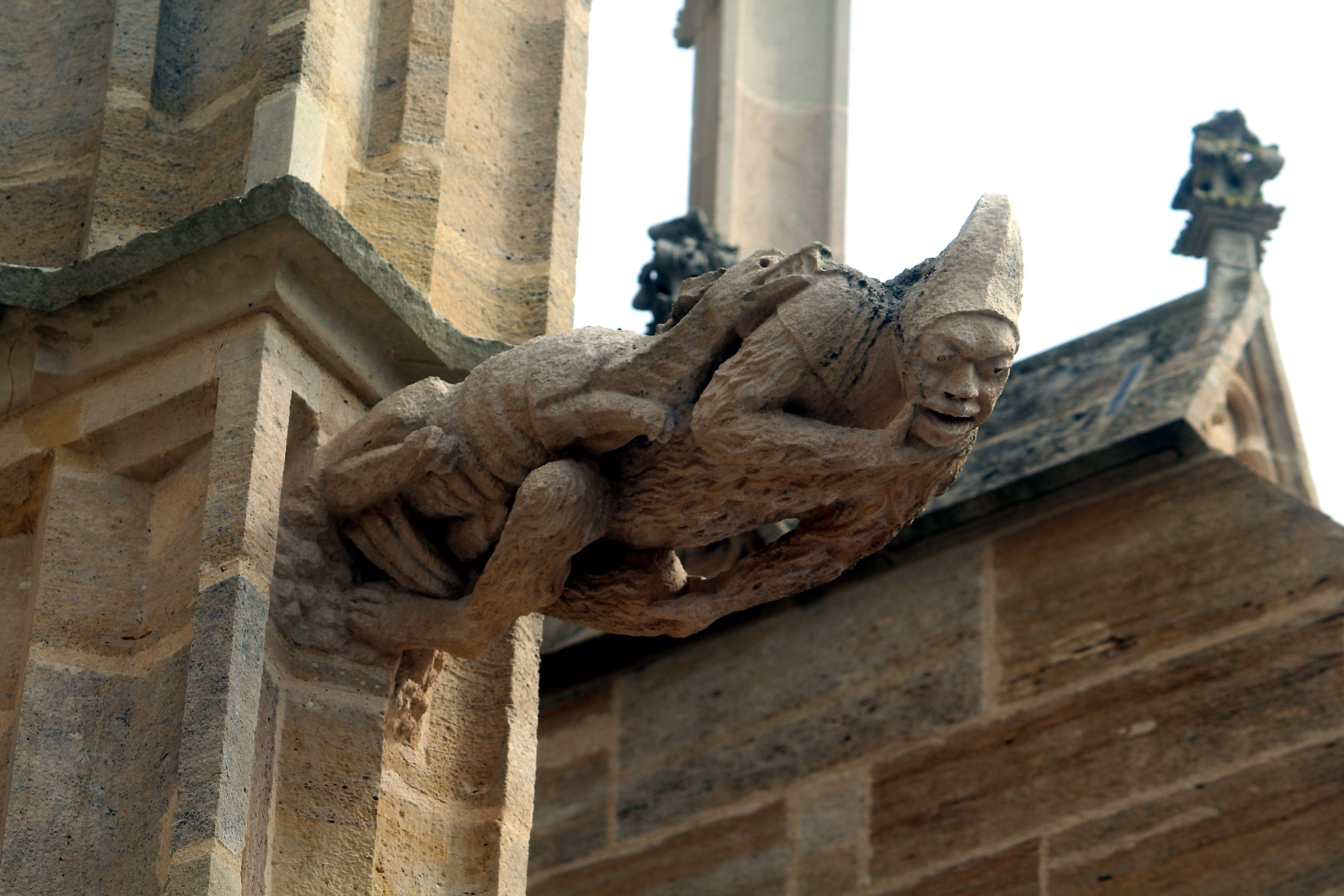 L'Épine (Marne), basilica Notre-Dame, gargoyle